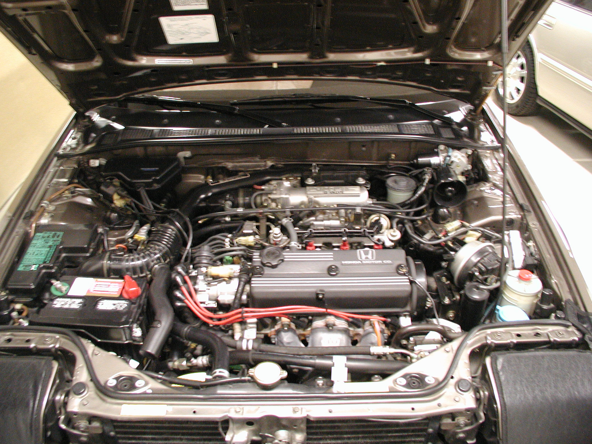 Aug 12, 2000